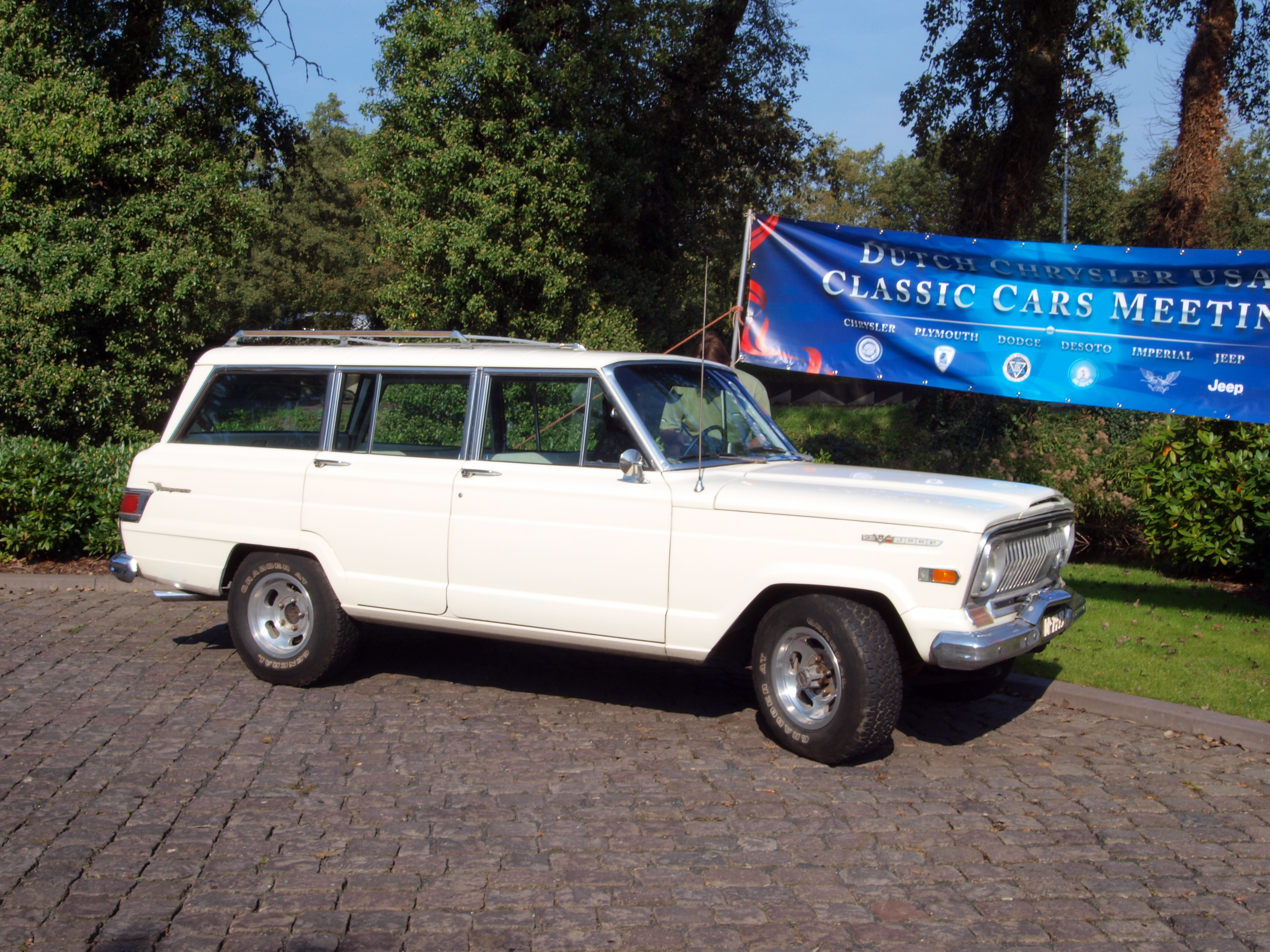 Photographed at the premmesis of the Louwman museum, The Hague, The Netherlands. OLYMPUS DIGITAL CAMERA